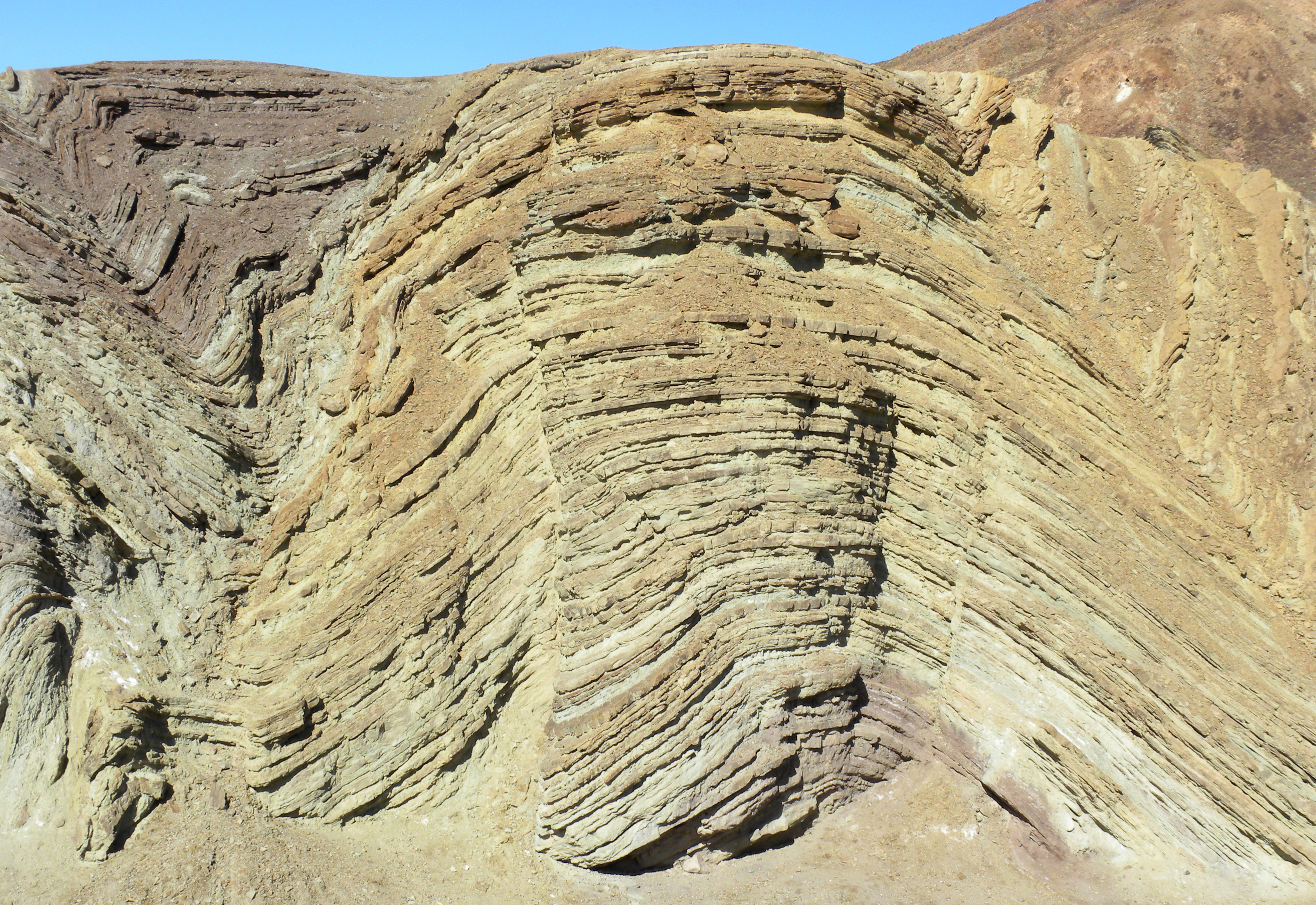 Anticline in the Barstow Formation (Miocene) at Calico Ghost Town near Barstow, California.